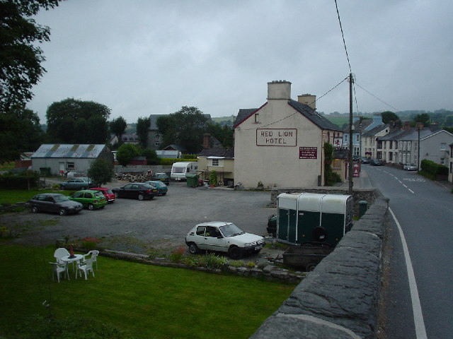 Red Lion Hotel, Pontrhydfendigaid.